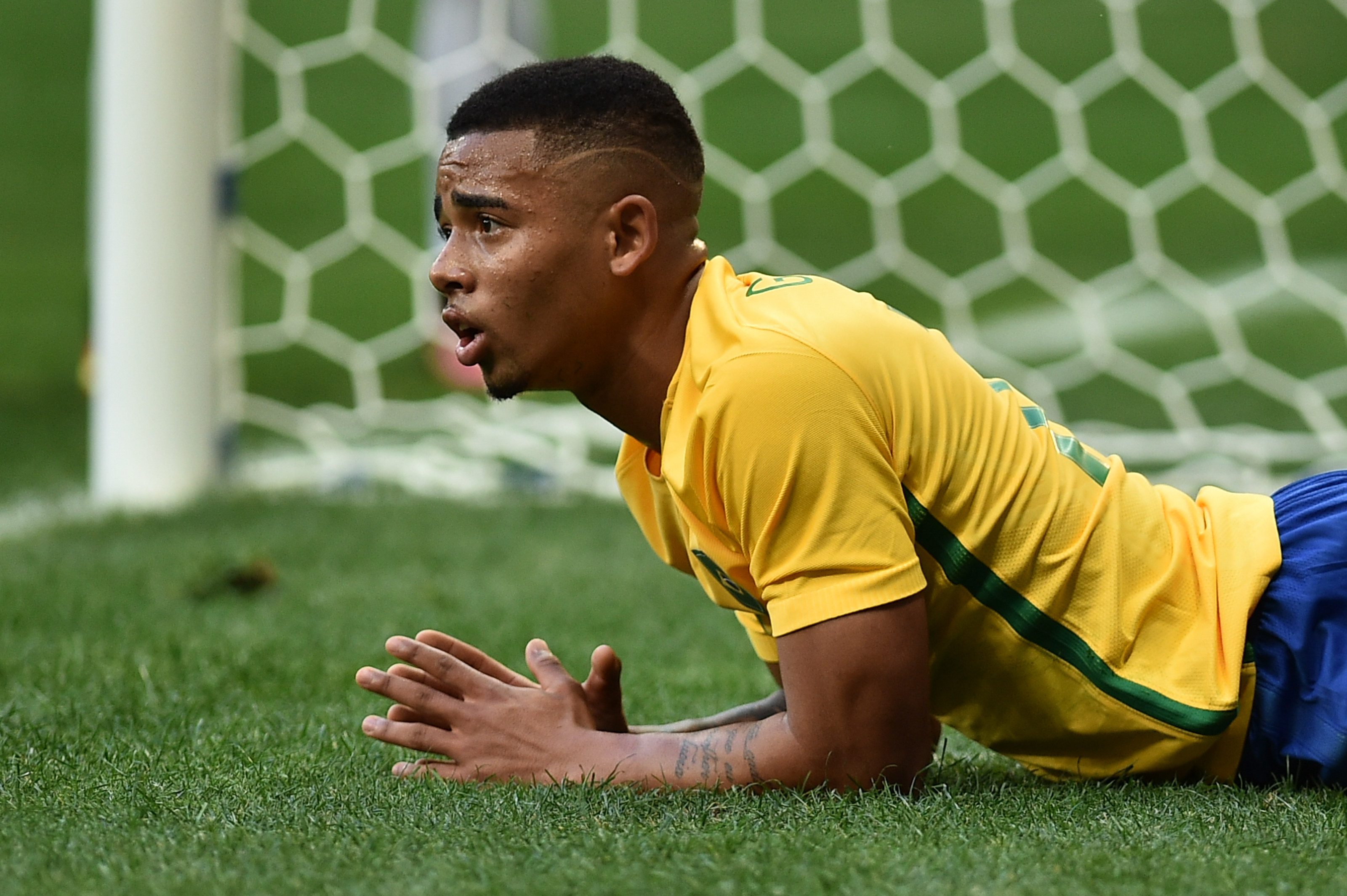 Gabriel Fernando de Jesus, known as Gabriel Jesus, is a brazilian football player